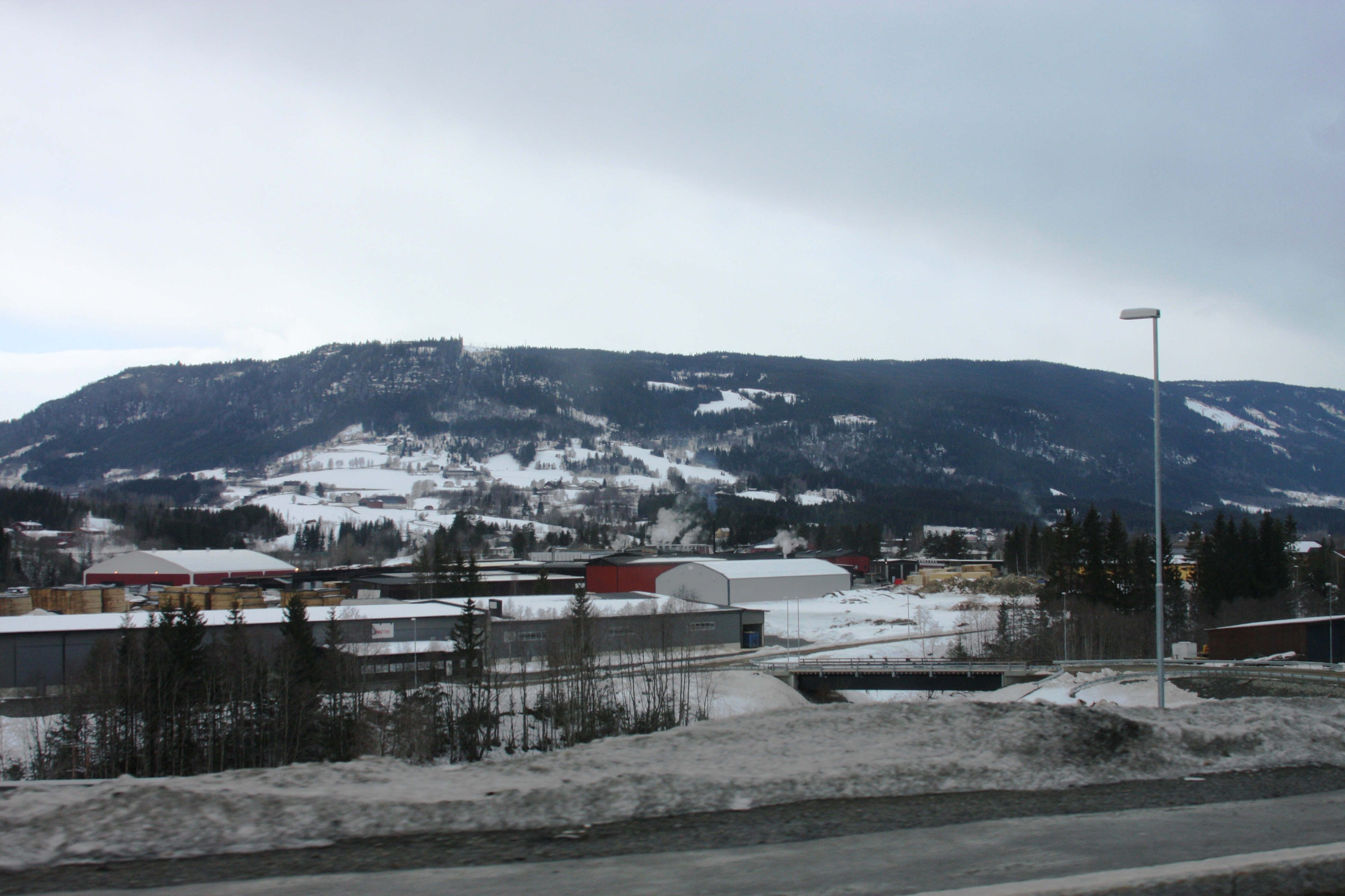 Gausdal Bruk, forest industry facility at Segalstad bru, Gausdal municipality, Norway